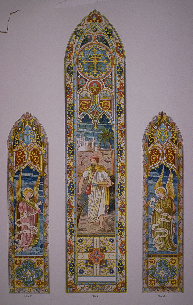 Plate from the Alfred Godwin & Company stained glass catalogue, circa 1891.